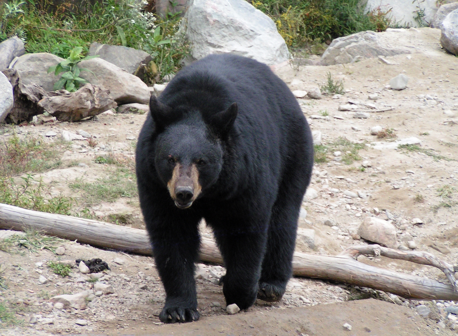 An American Black Bear (Ursus americanus) at the Omega Park in Montebello, Québec, Canada.